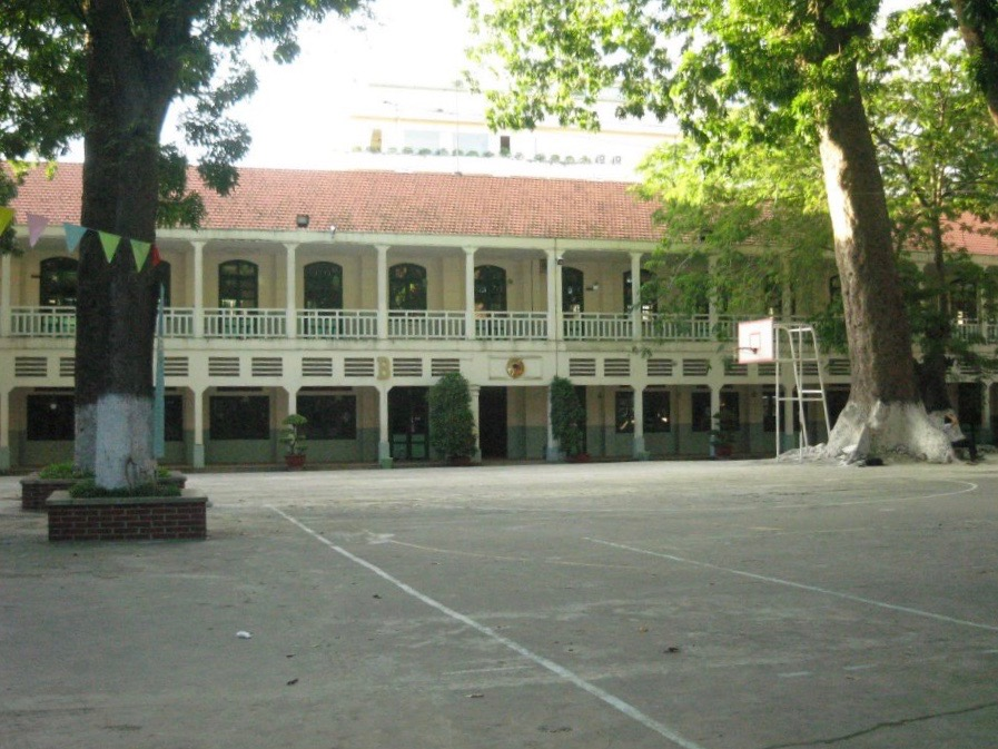 Sân Lê Quý Đôn